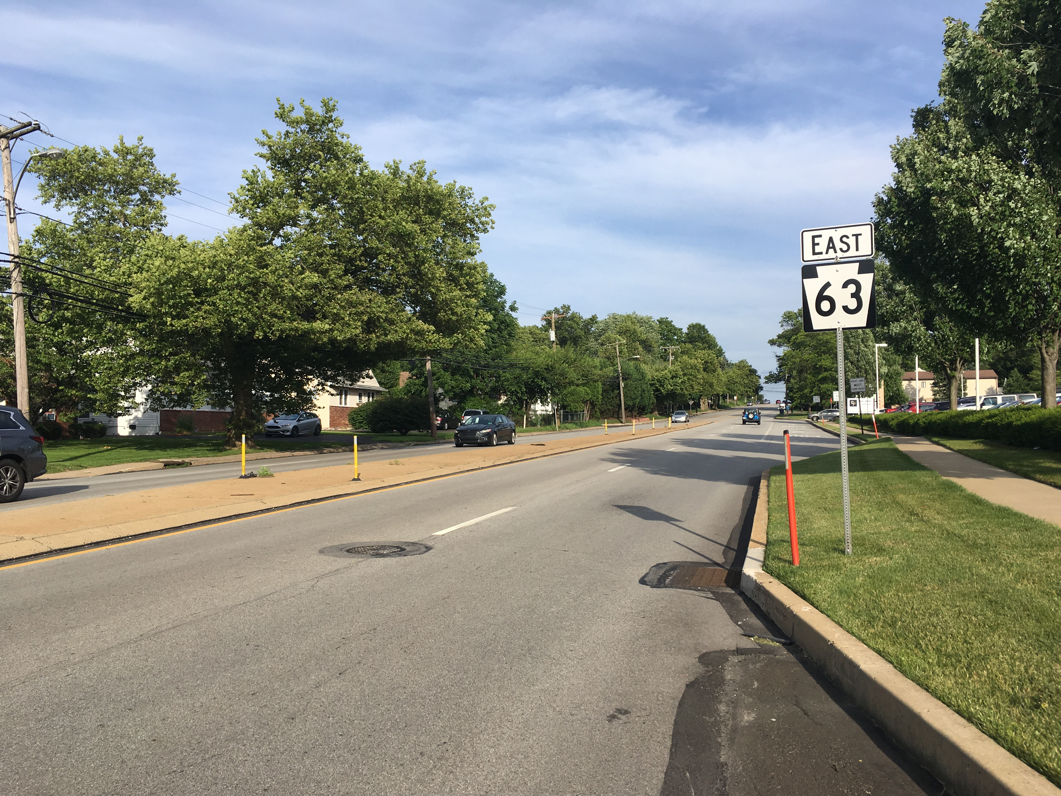 Eastbound Pennsylvania Route 63 (Moreland Road) past the intersection with Fitzwatertown Road in Willow Grove, Pennsylvania